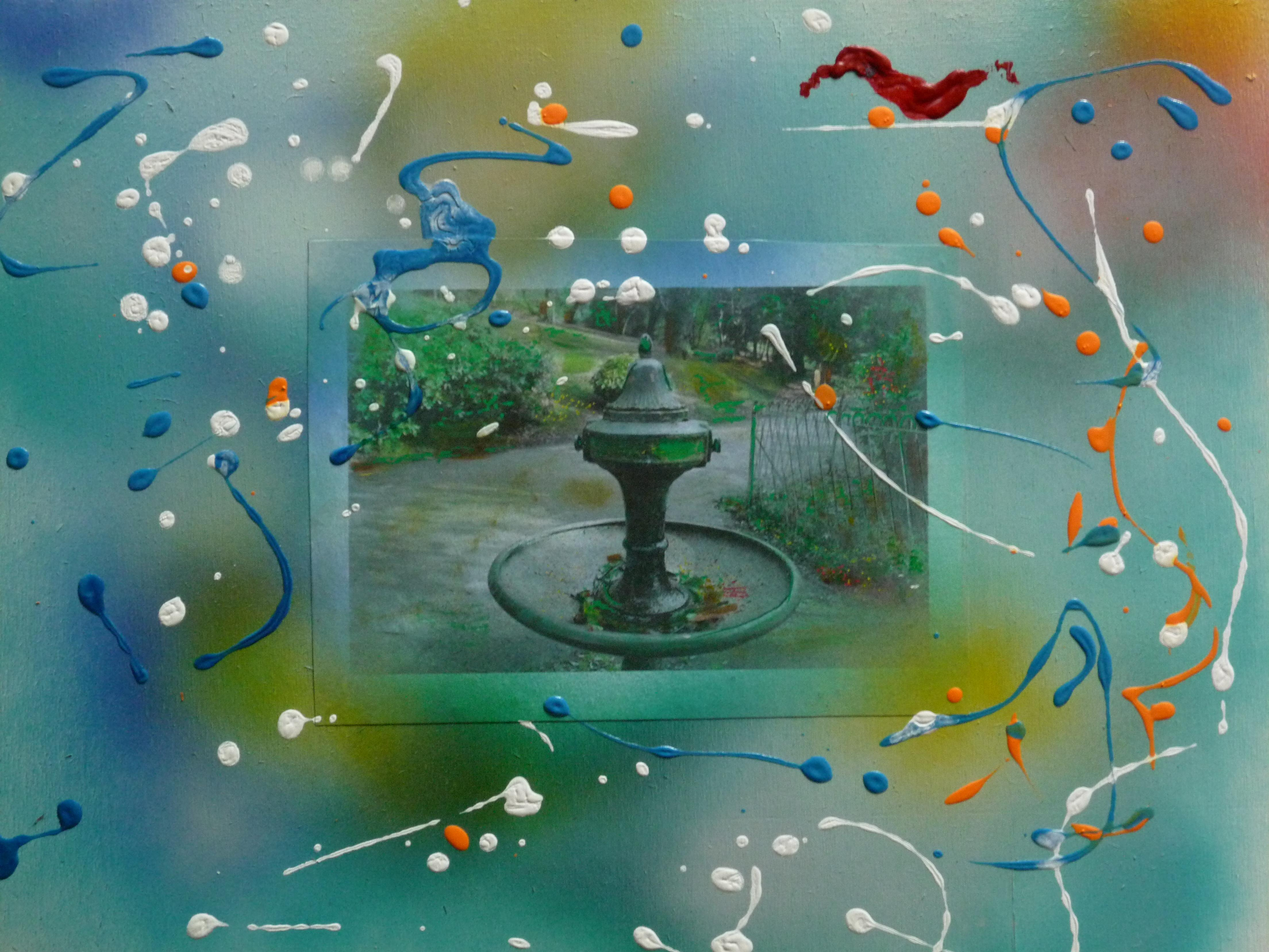 The fountain in Cwmdonkin Park, celebrated by Dylan Thomas in his poem "The Hunchback in the Park"